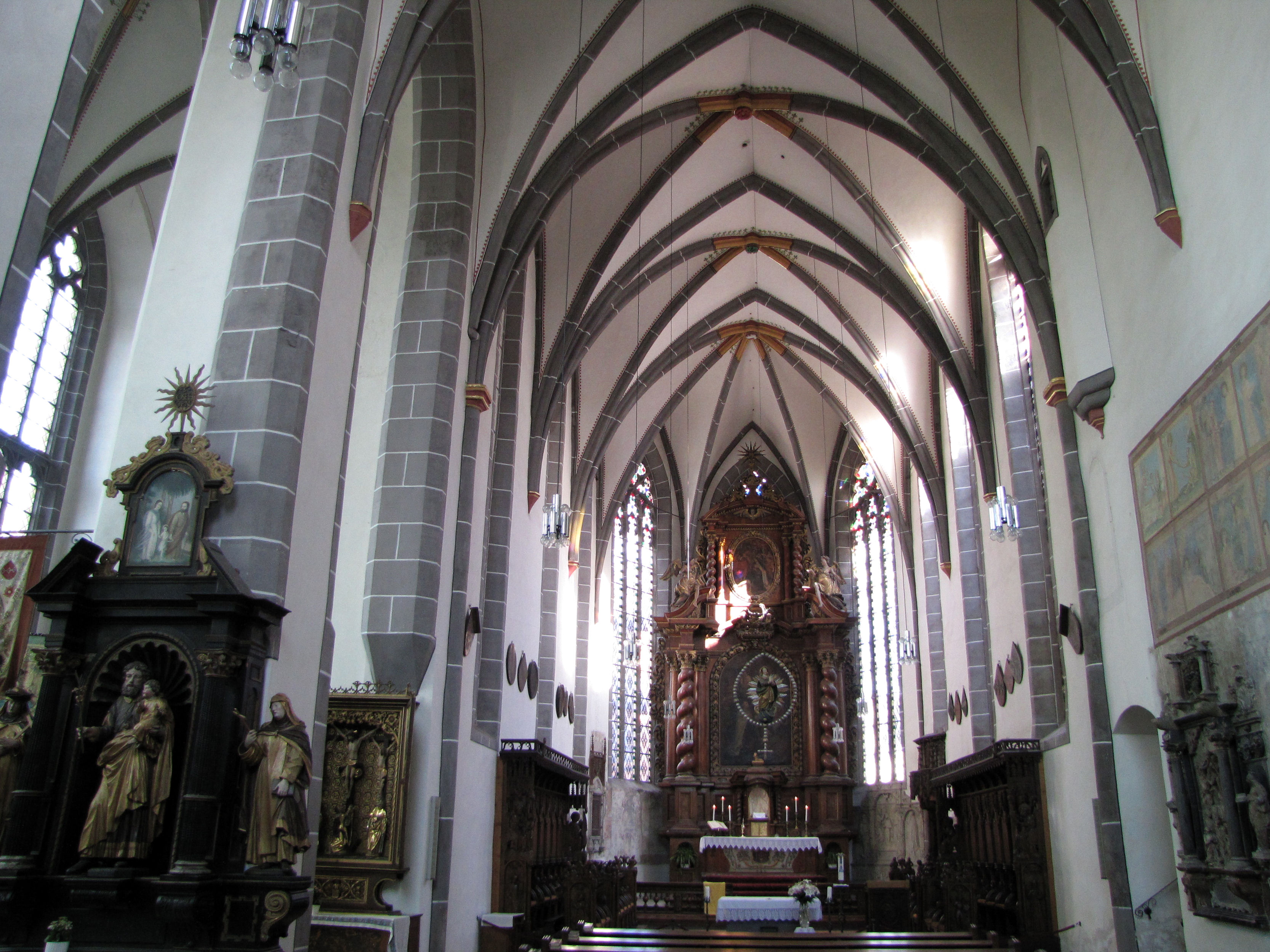 Interior of the Karmeliterkirche in Boppard